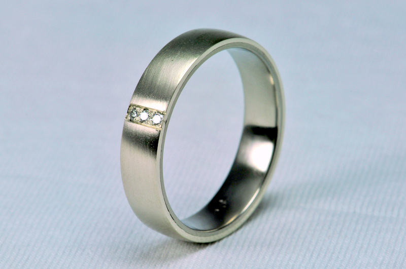 mildly convex wedding ring, inside titanium, outside white gold with 3pcs of diamonds